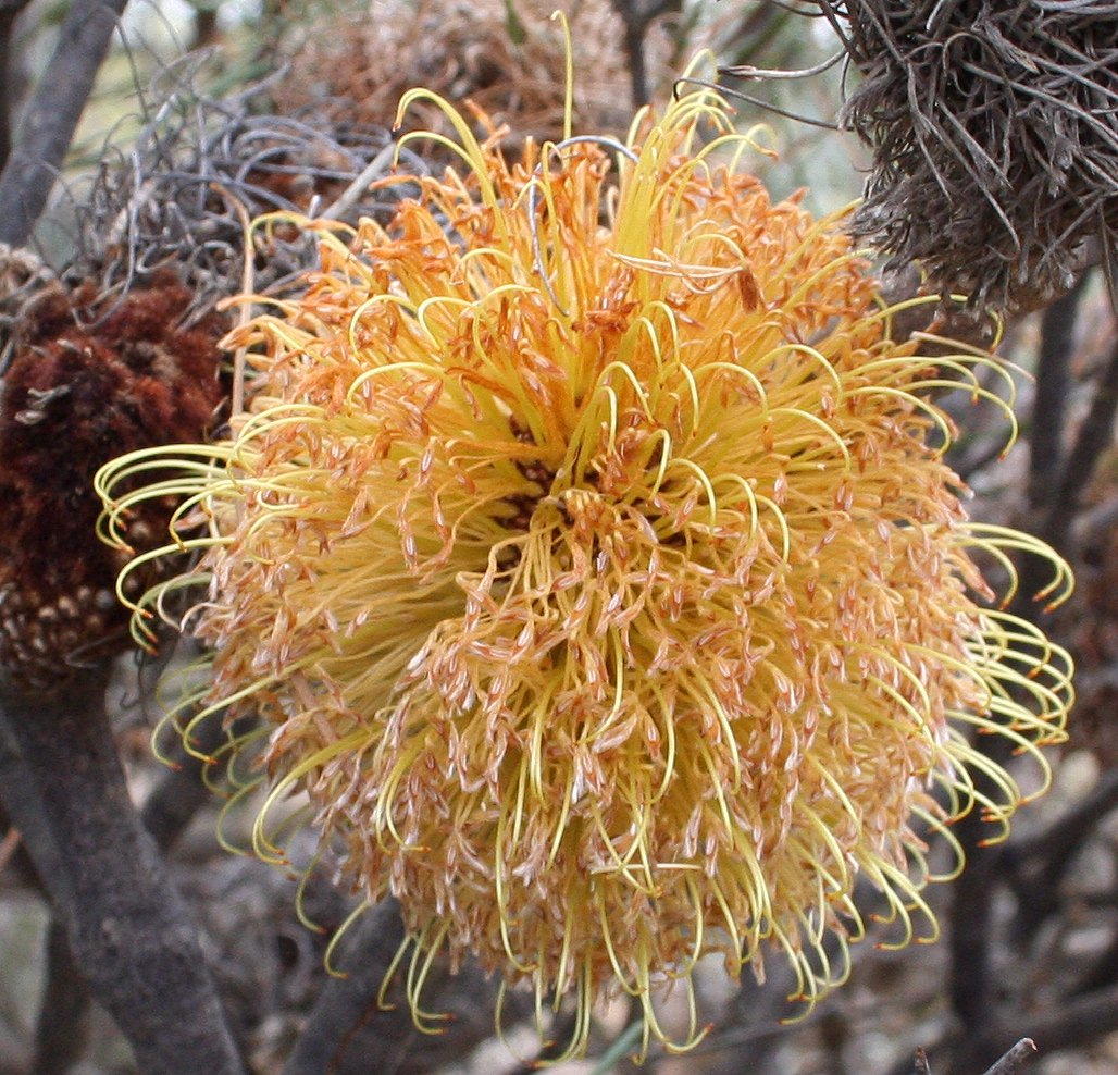 Banksia sphaerocarpa caesia inflorescence, Bendering NR. wheatbelt